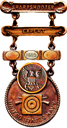 Digital Painting of former U.S. Navy Sharpshooter's Badge, with Expert and Qualification Year Clasps (including 1912 year disk)